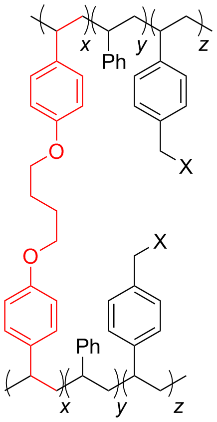 JandaJel